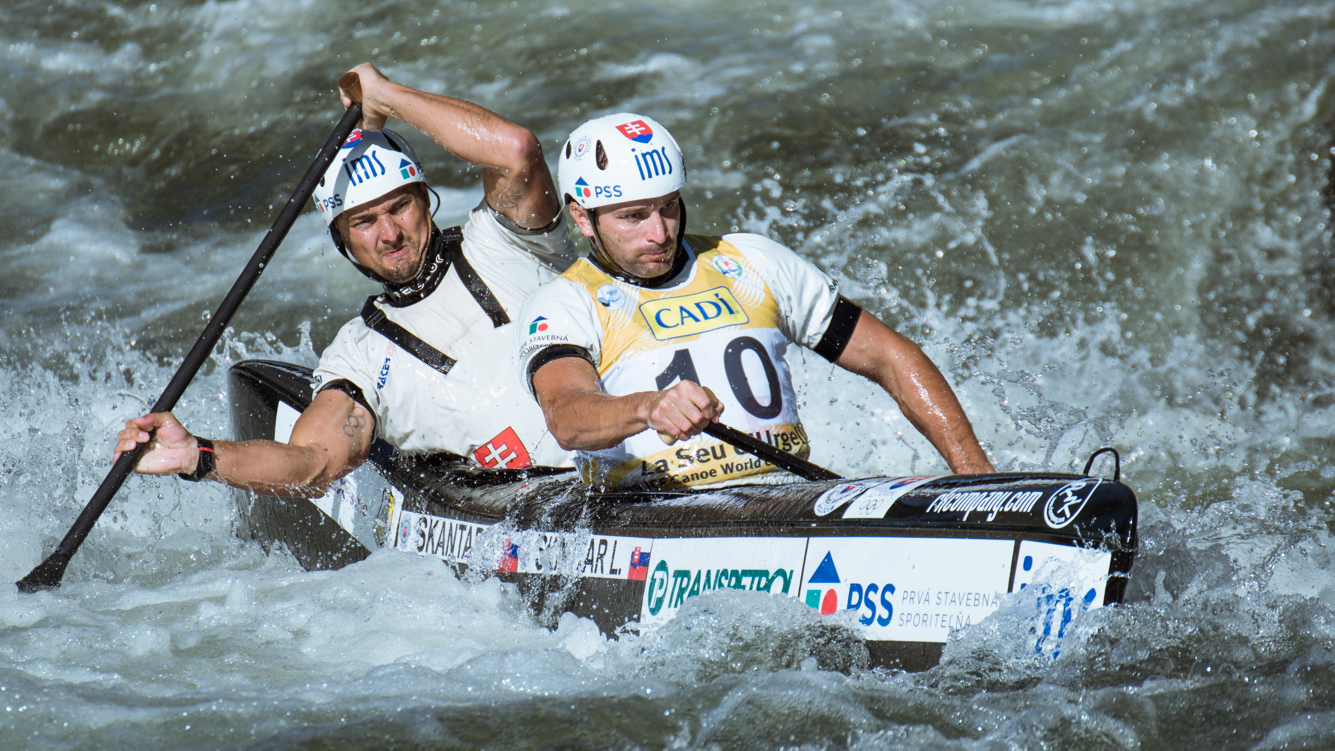 Ladislav Škantár and Peter Škantár during the 2019 Canoe Wildwater World Championships in La Seu d'Urgell, Spain.